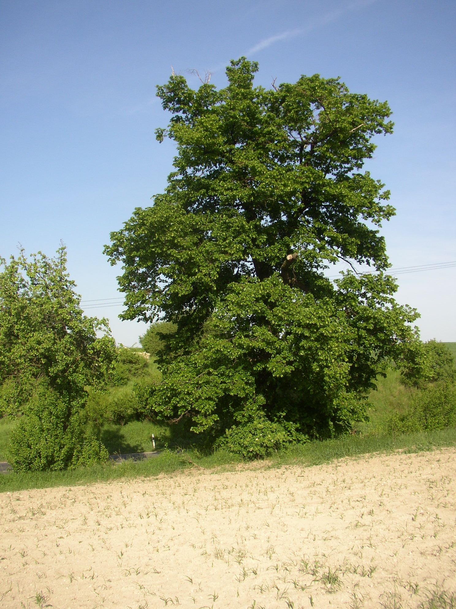 Lípa u Rosů, a protected example of Small-leaved Lime (Tilia cordata) besides II/118 road between town of Slaný and village of Želevčice, Kladno District, Czech Republic. View from the west.